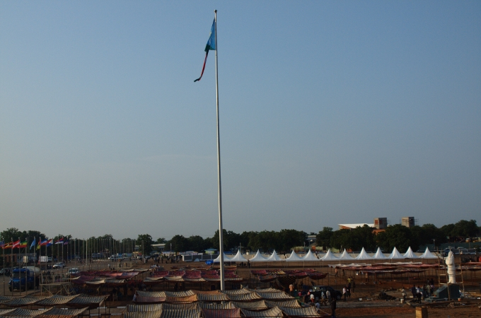 Garang's mausoleum on the eve of independence. The pole in the centre will be used for a ceremonial flag-raising.